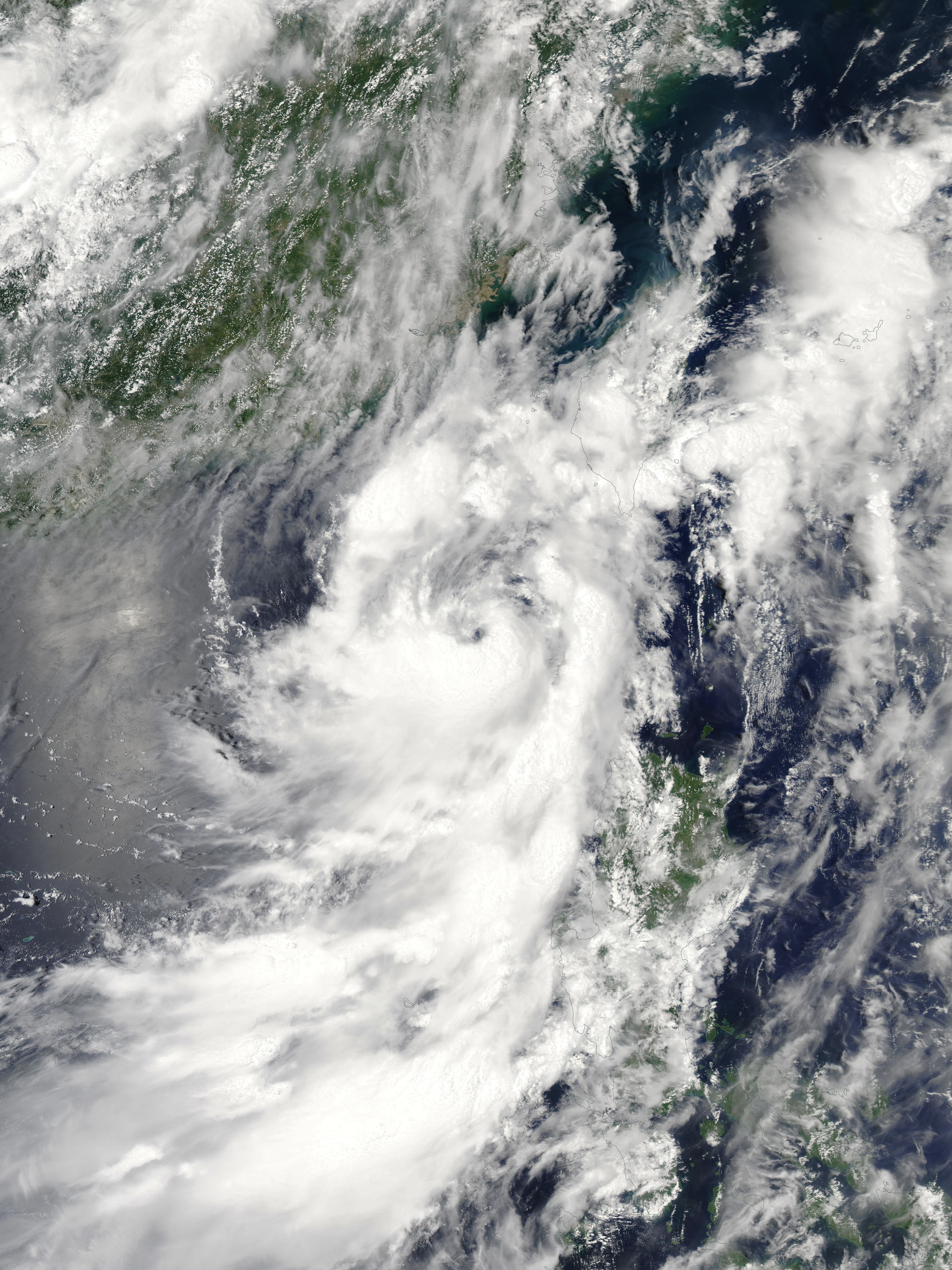 Tropical Storm Mekkhala in the South China Sea on August 10, 2020